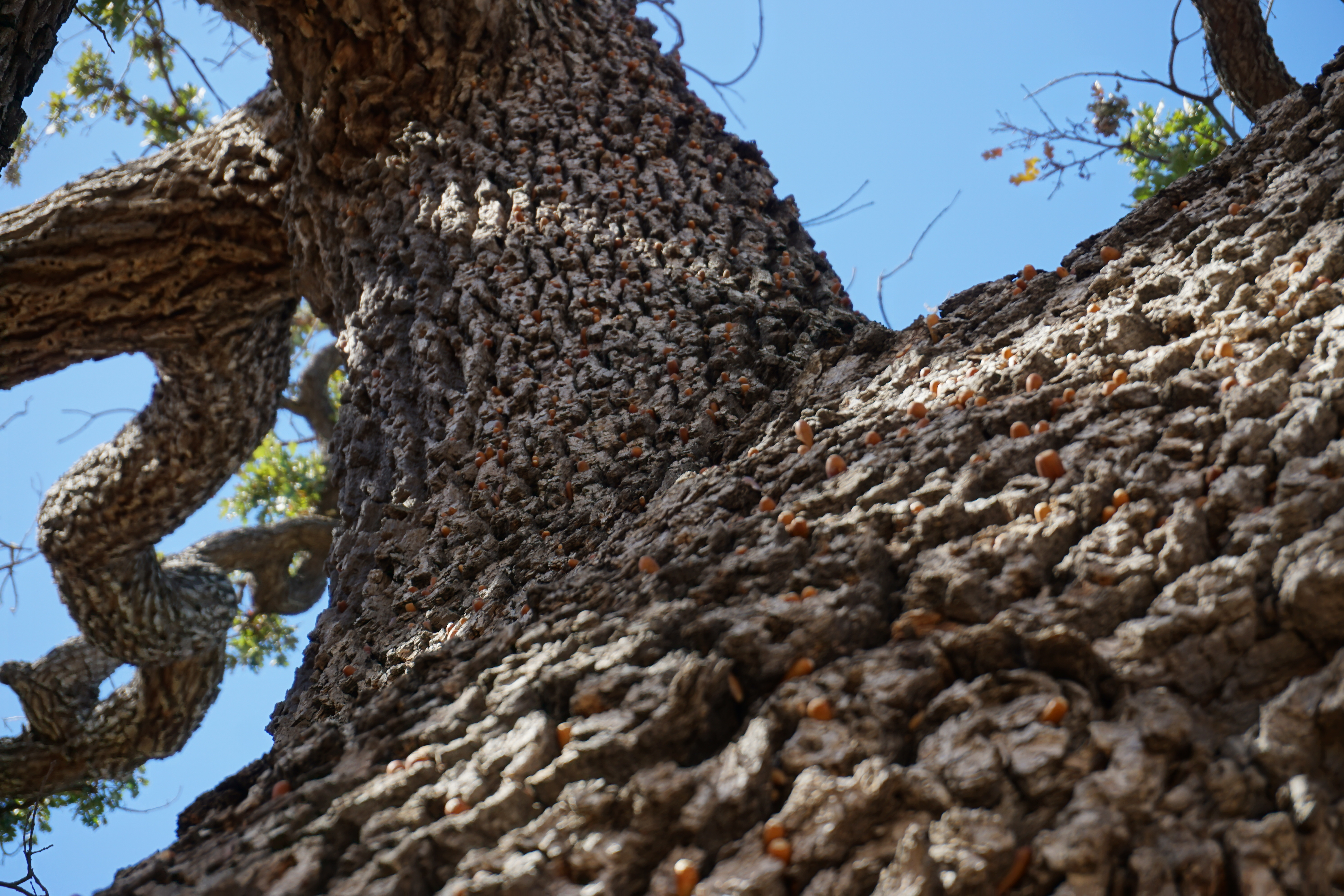 Melanerpes formicivoru acorn stores